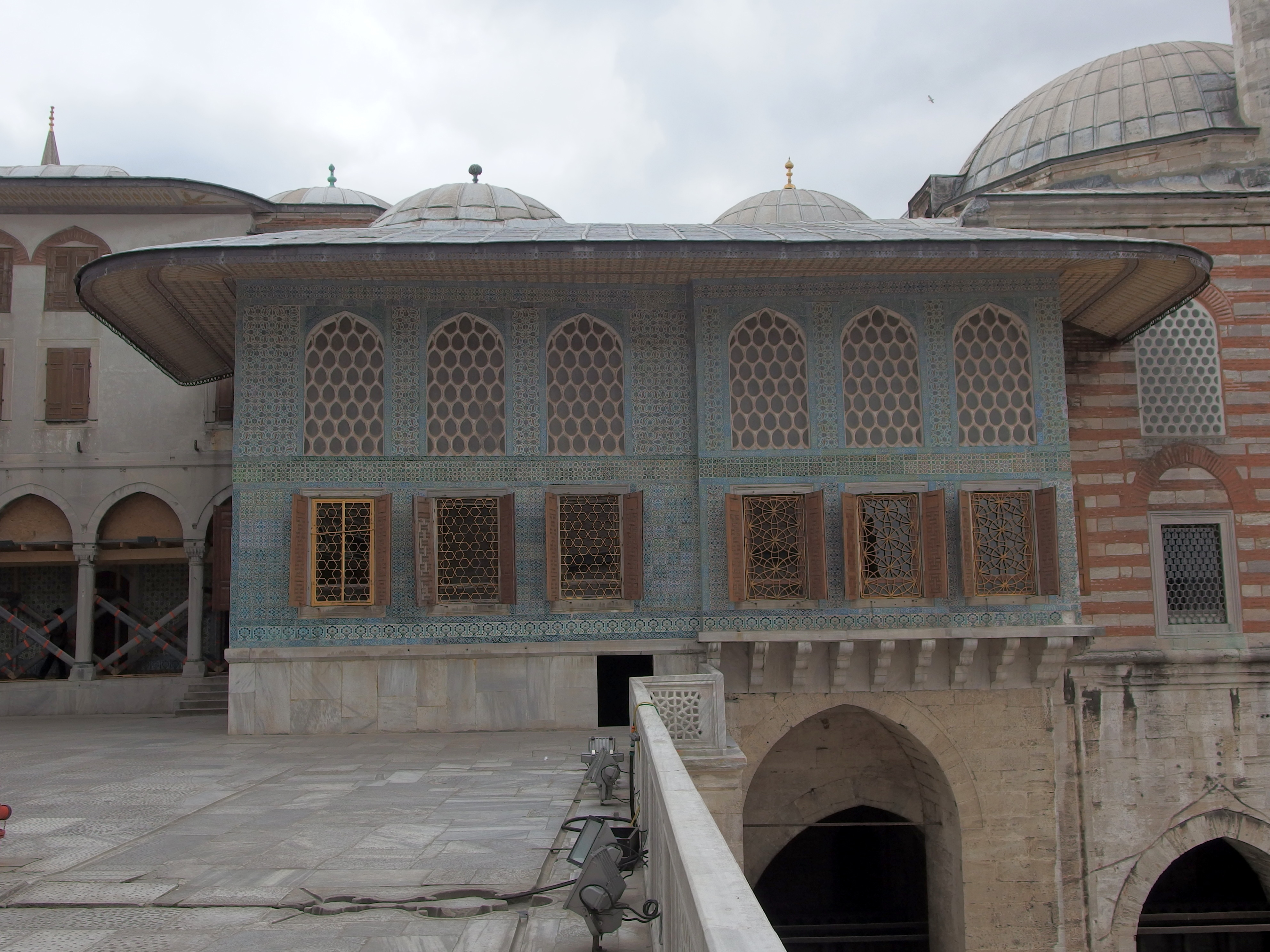 2013-12-04 in Istanbul.